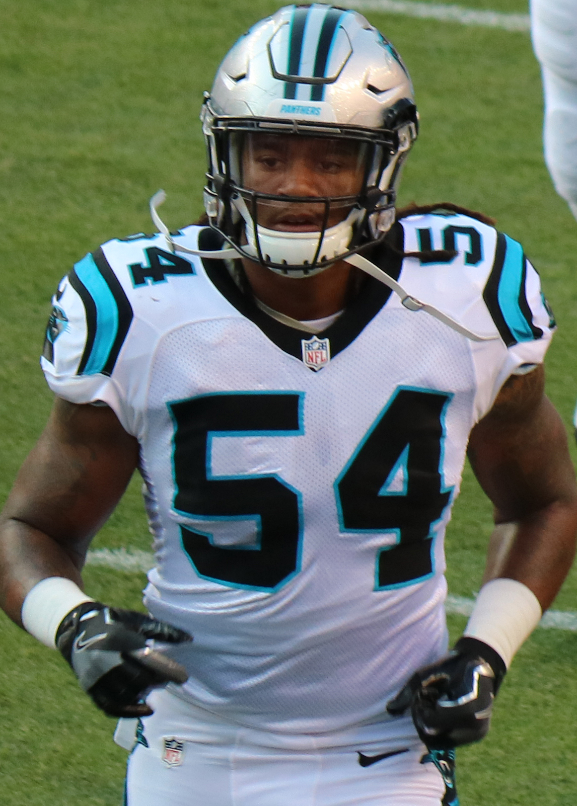 Shaq Thompson, a player on the National Football League.